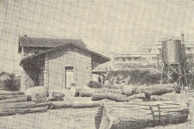 Vouzela Railway Station, on the Vouga Railway, in Portugal. This image was published on the Gazeta dos Caminhos de Ferro magazine no. 1363, of the 1st October 1944, and scanned by the Hemeroteca Municipal de Lisboa.